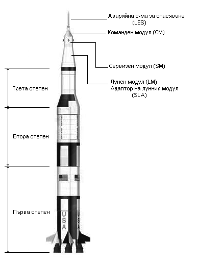 Apollo Saturn 5. Legend in Bulgarian